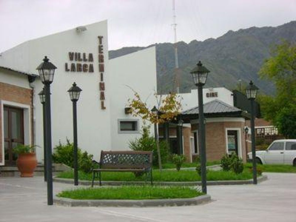 Photo of the bus station of Villa Larca